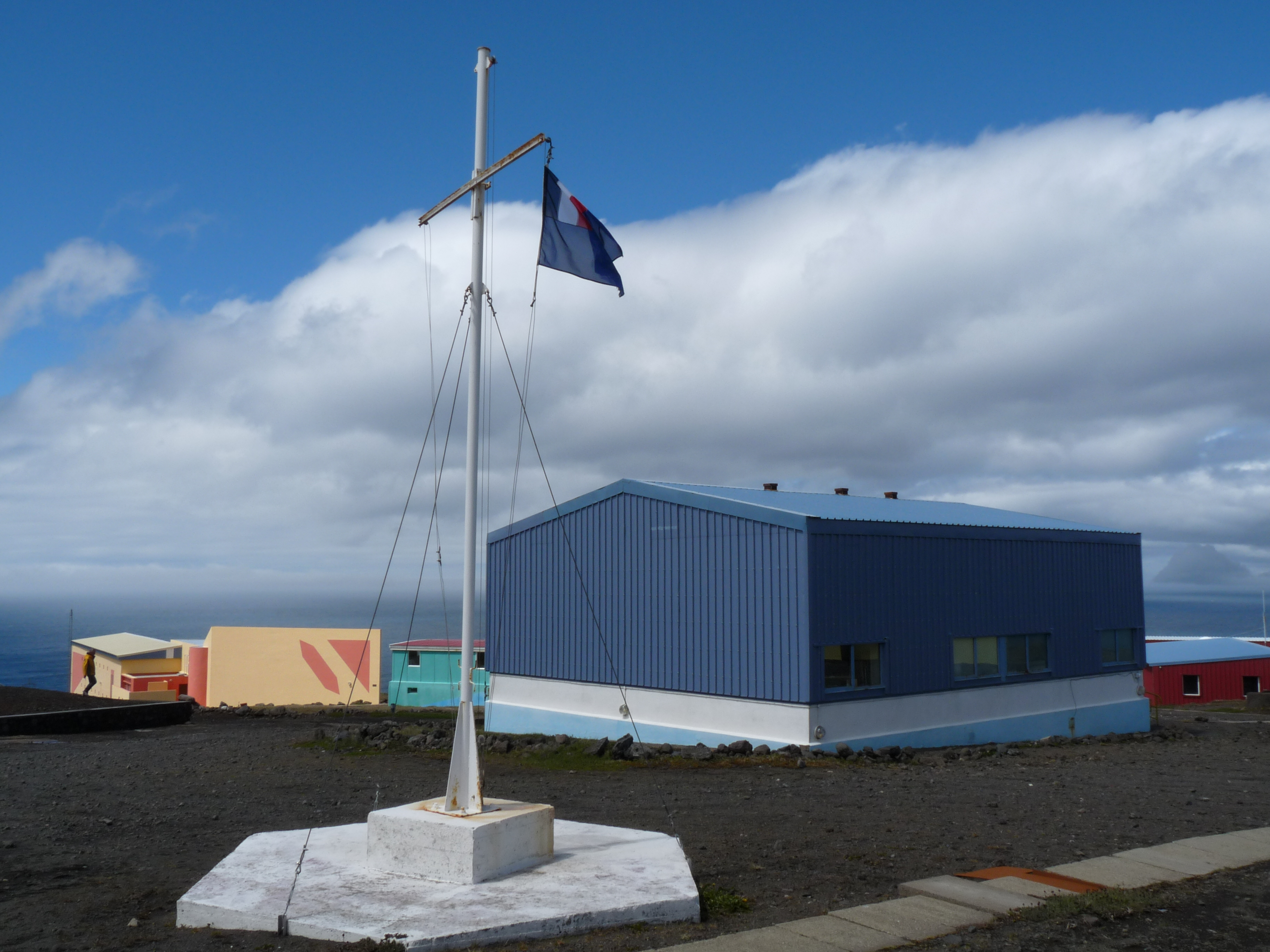 Flag of TAAF in Base Alfred Faure